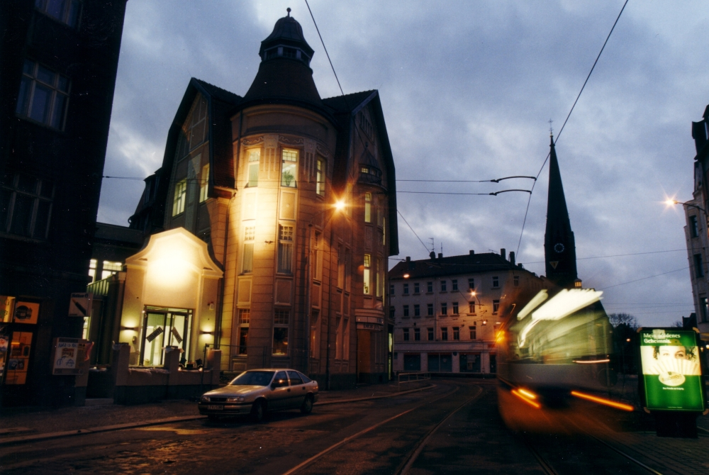 LOFFT by night